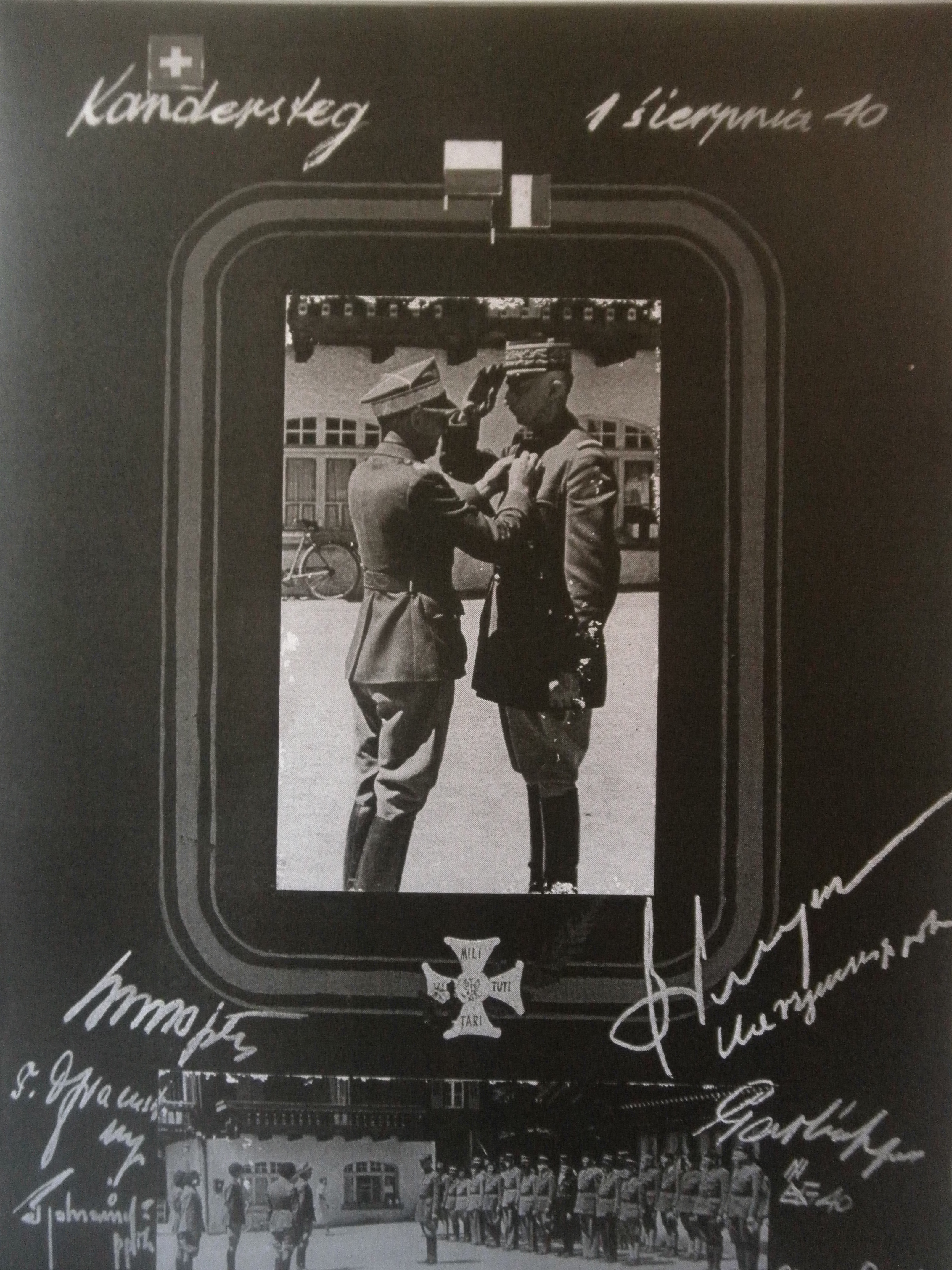 décoration militaire